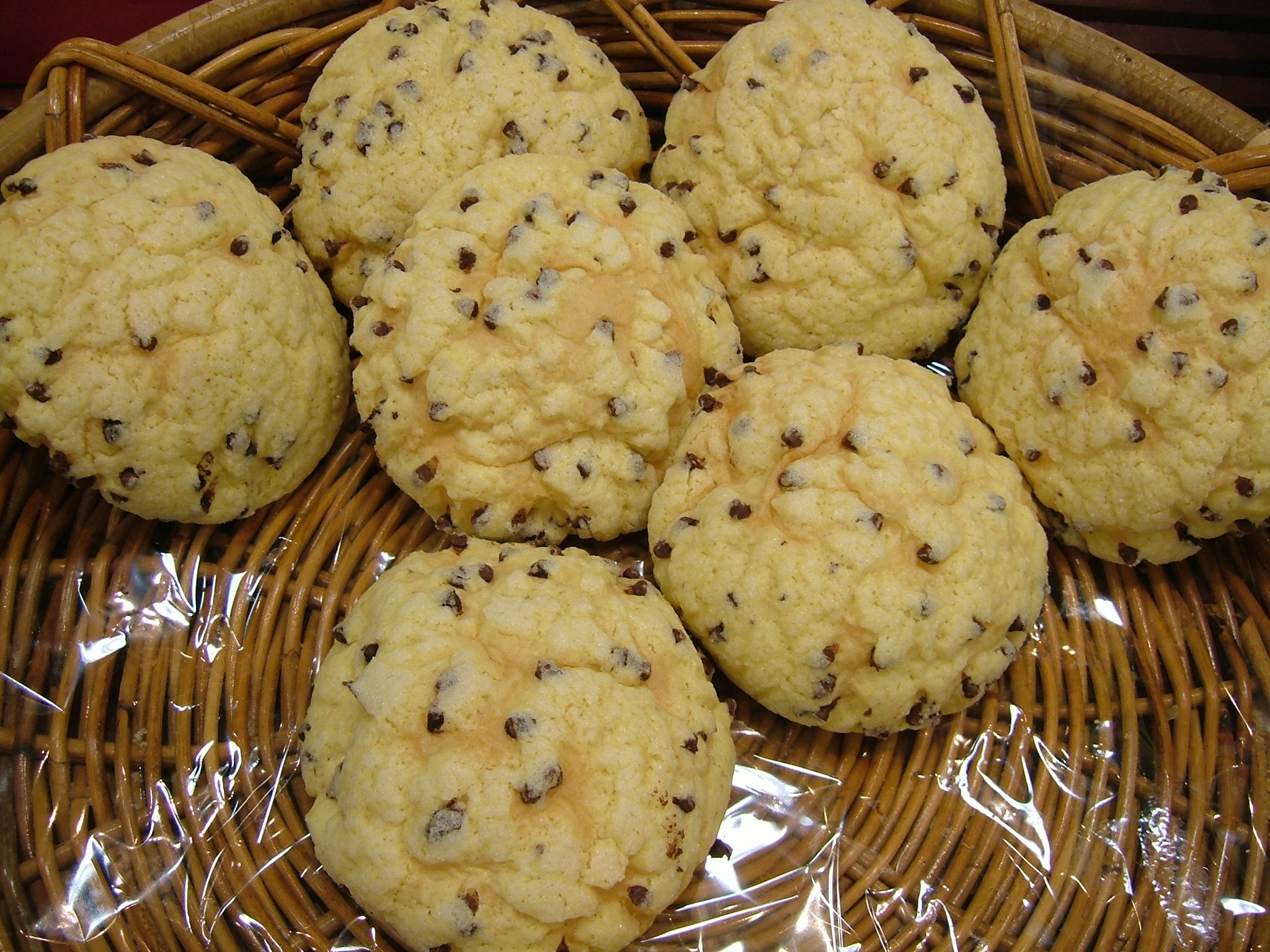 Chocolate chip Melonpan.